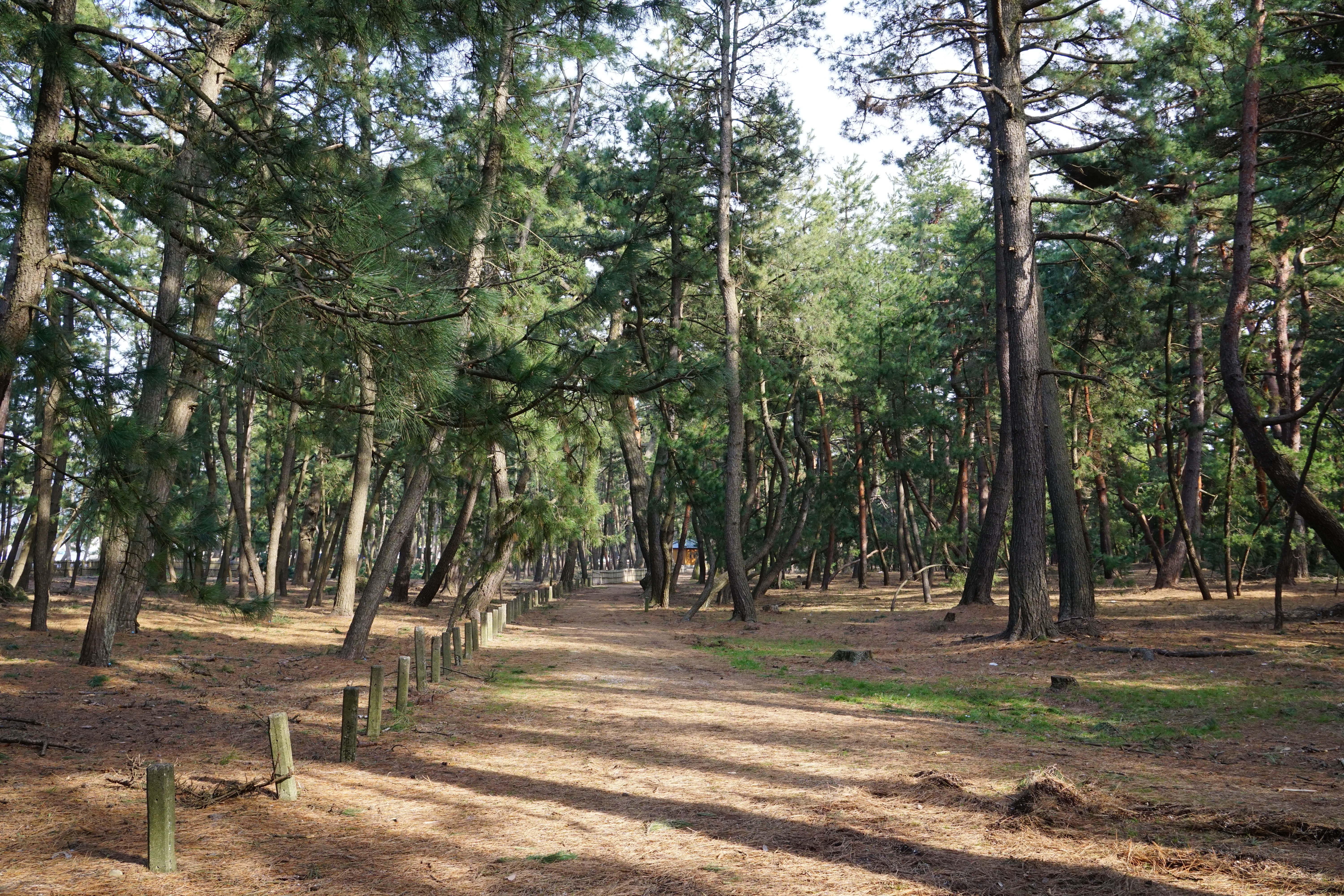 Kehi-matsubara in Tsuruga, Fukui prefecture, Japan.